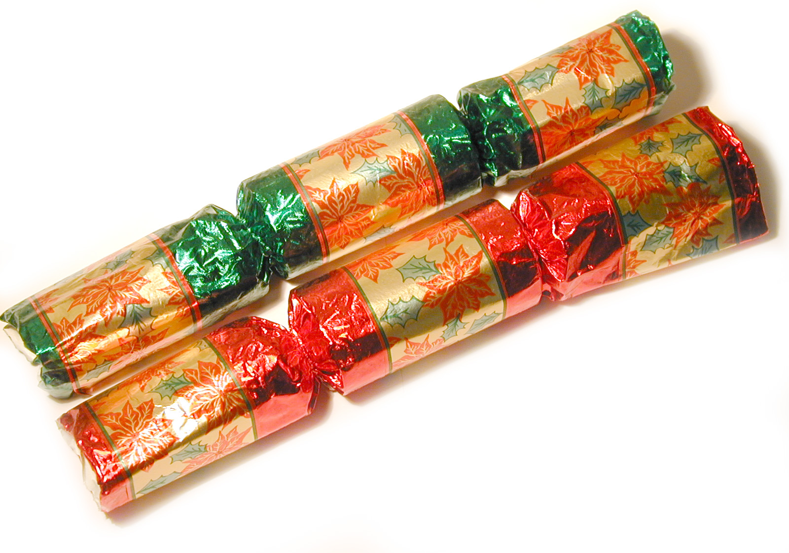 Christmas cracker, traditional noisemaker at christmas time in the UK